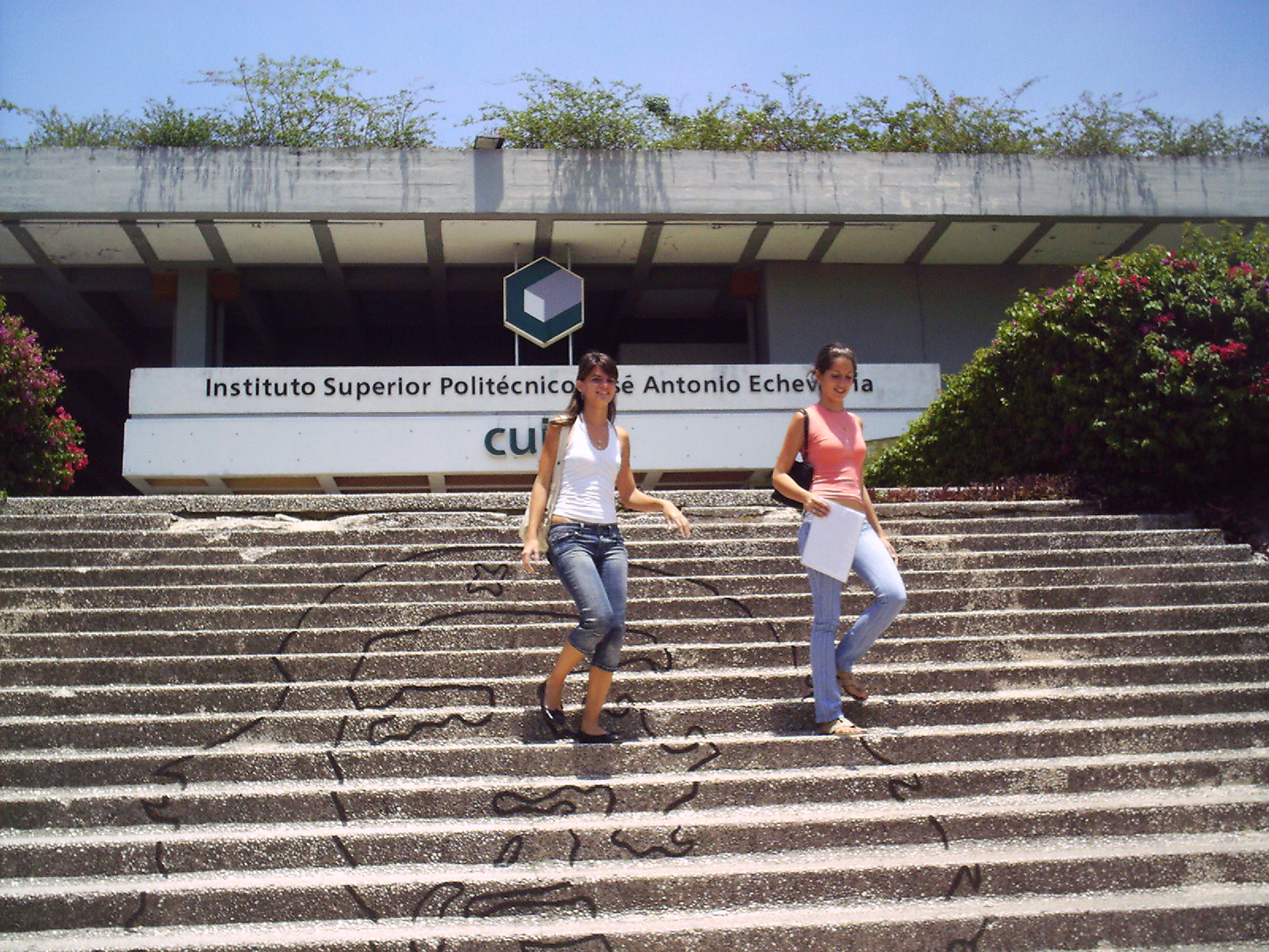 A view of Main Entrance of Jose Antonio Echeverria University Center, Cuba (Also Know as CUJAE in Spanish)